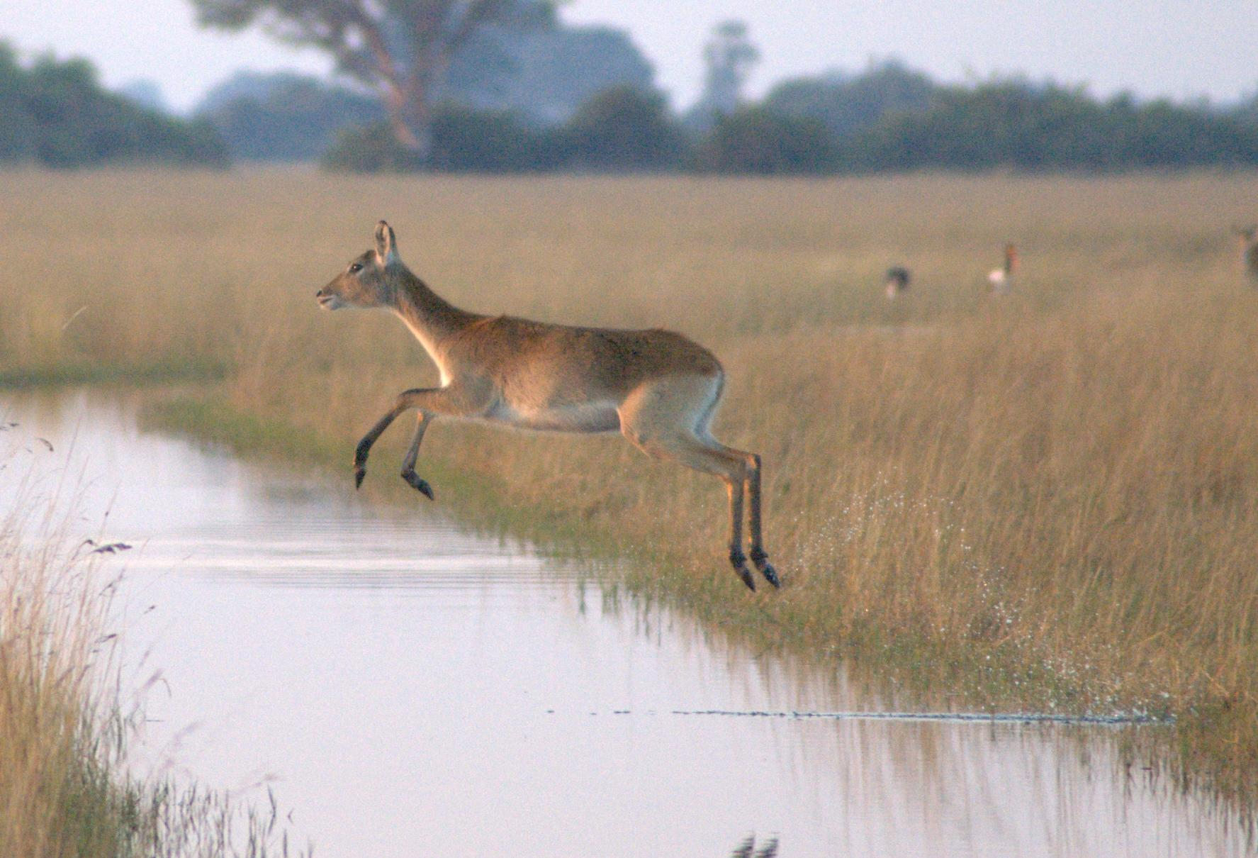 A lechwe antelope flying over a patch of clear water in Okavango Delta, Botswana. Shot in May 2005. The original in raw format (Nikon) available under a difference license.пан Бостон-Київський 01:28, 17 March 2006 (UTC)